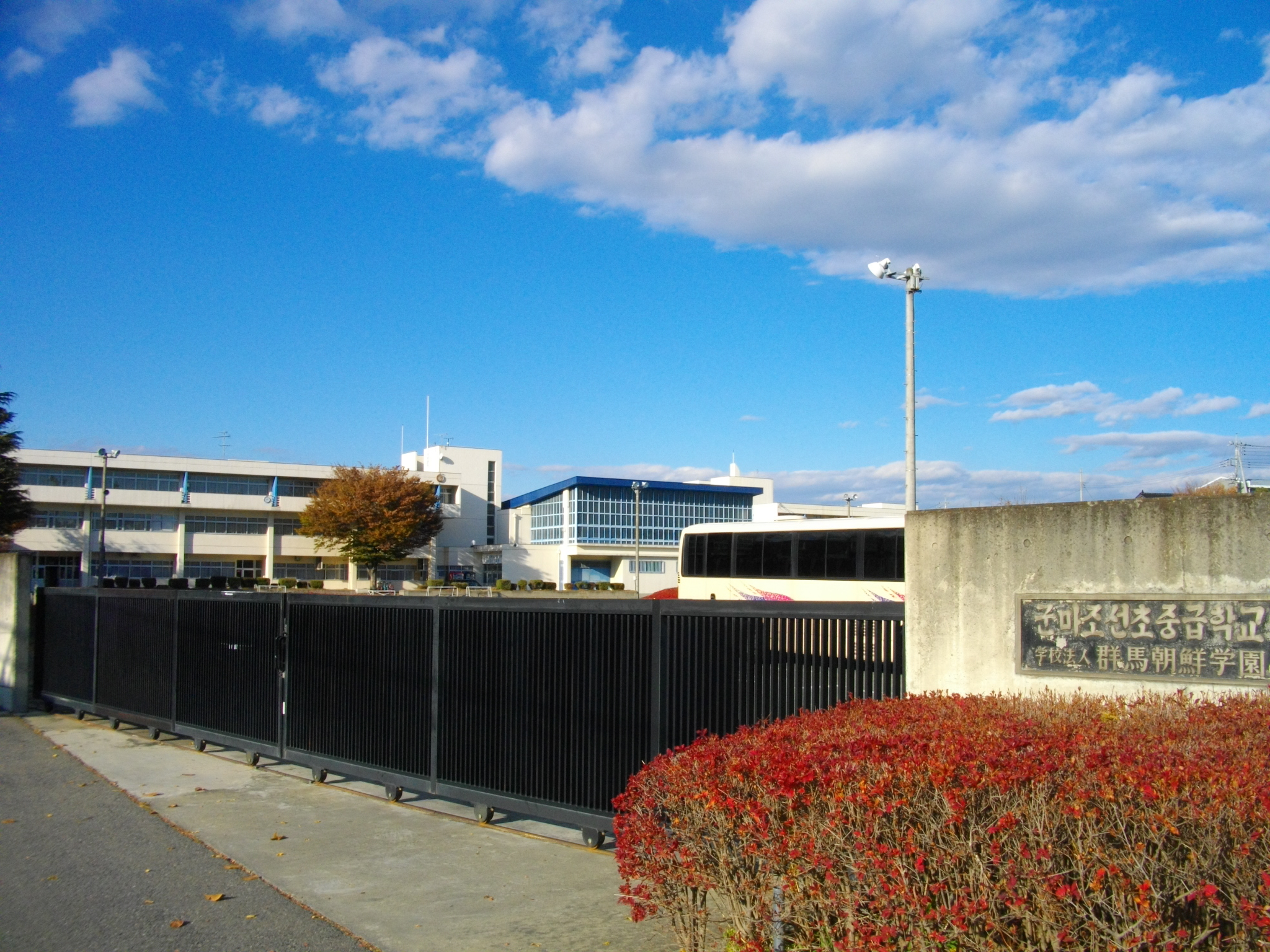 Gunma Korean Elementary and Junior High School